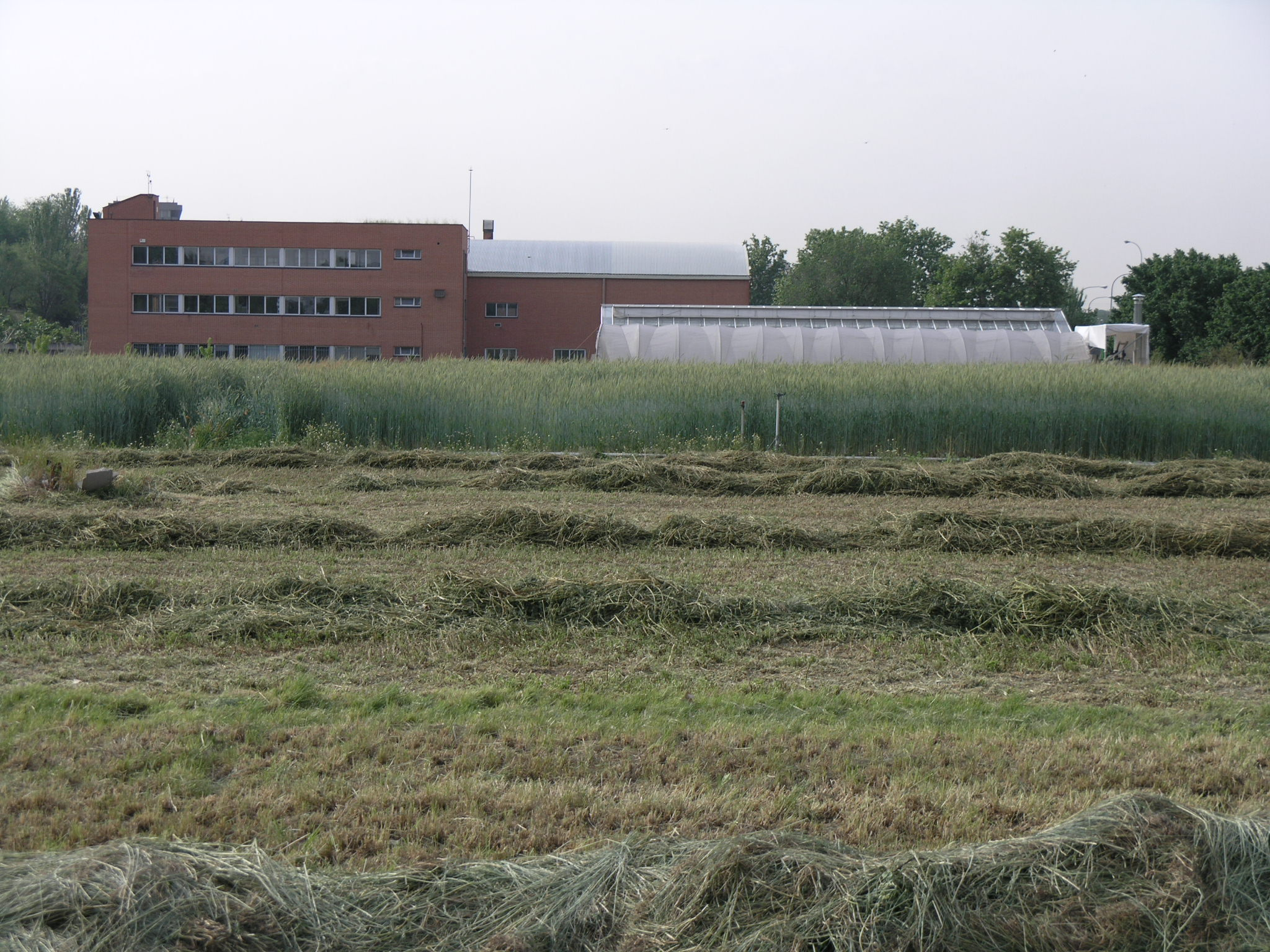 Experimental farm and Unit of Crop Production of the school of agricultural engineering of the Technical University of Madrid (Spain)